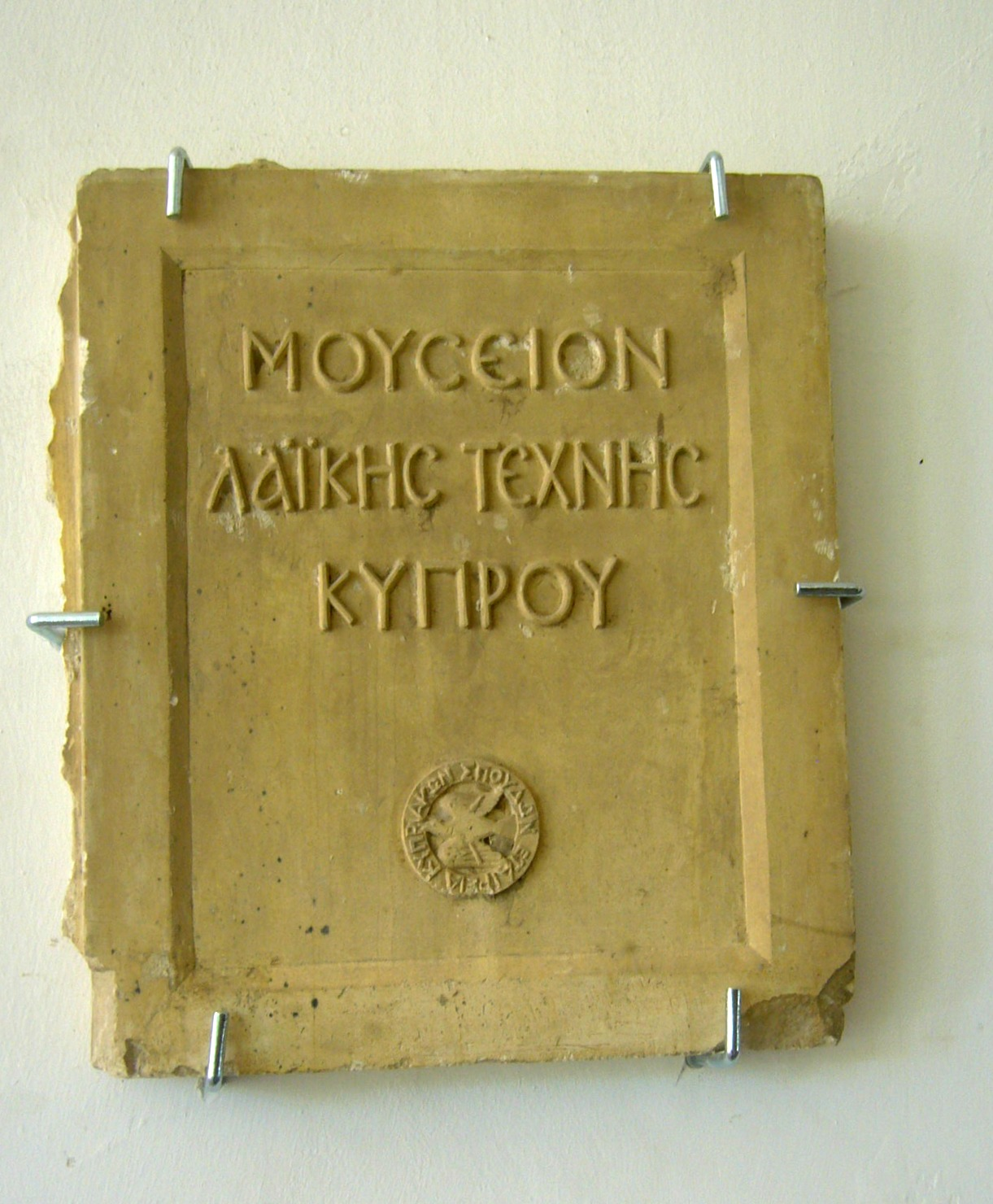 The name of the museum - the entrance sign. Museum of Folk Art in Nicosia